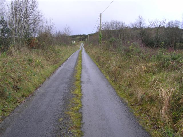 Road at Cloghoge Heading west